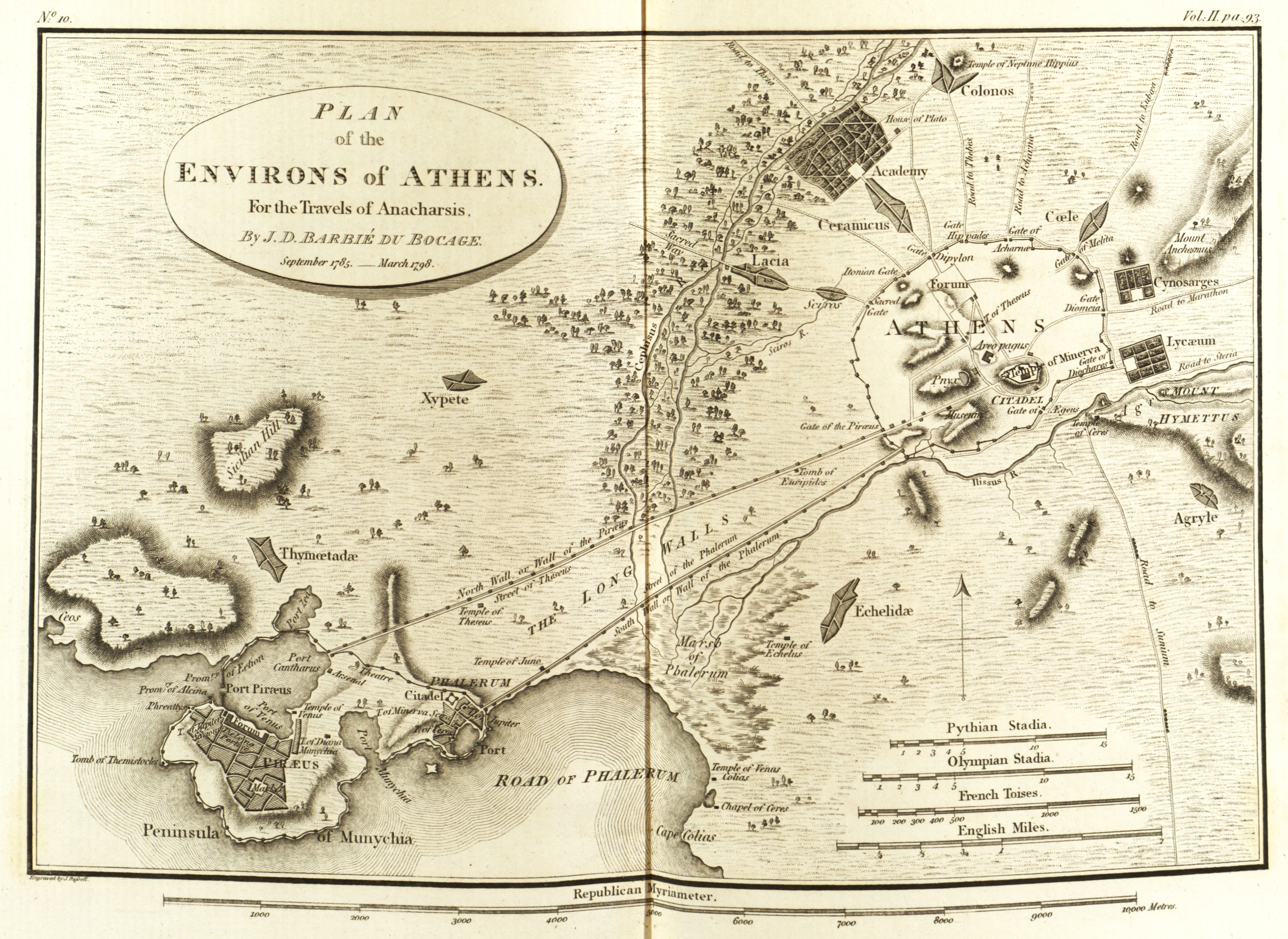 Map of the Environs of Athens This image is in the public domain because it is a mere mechanical scan or photocopy of a public domain original, or – from the available evidence – is so similar to such a scan or photocopy that no copyright protection can be expected to arise. The original itself is in the public domain for the following reason: This work is in the public domain in its country of origin and other countries and areas where the copyright term is the author's life plus 100 years or less. This work is in the public domain in the United States because it was published (or registered with the U.S. Copyright Office) before January 1, 1923. This file has been identified as being free of known restrictions under copyright law, including all related and neighboring rights. This tag is designed for use where there may be a need to assert that any enhancements (eg brightness, contrast, colour-matching, sharpening) are in themselves insufficiently creative to generate a new copyright. It can be used where it is unknown whether any enhancements have been made, as well as when the enhancements are clear but insufficient. For known raw unenhanced scans you can use an appropriate PD-old tag instead. For usage, see Commons:When to use the PD-scan tag. Note: This tag applies to scans and photocopies only. For photographs of public domain originals taken from afar, PD-Art may be applicable. See Commons:When to use the PD-Art tag.